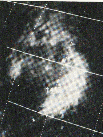 This ESSA 9 weather satellite picture of the tropical depression which would become Tropical Storm Carmen was taken on September 24, 1971 at 0423 UTC